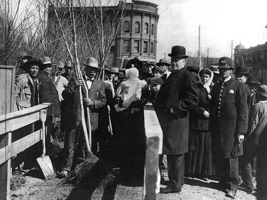 Tree Day